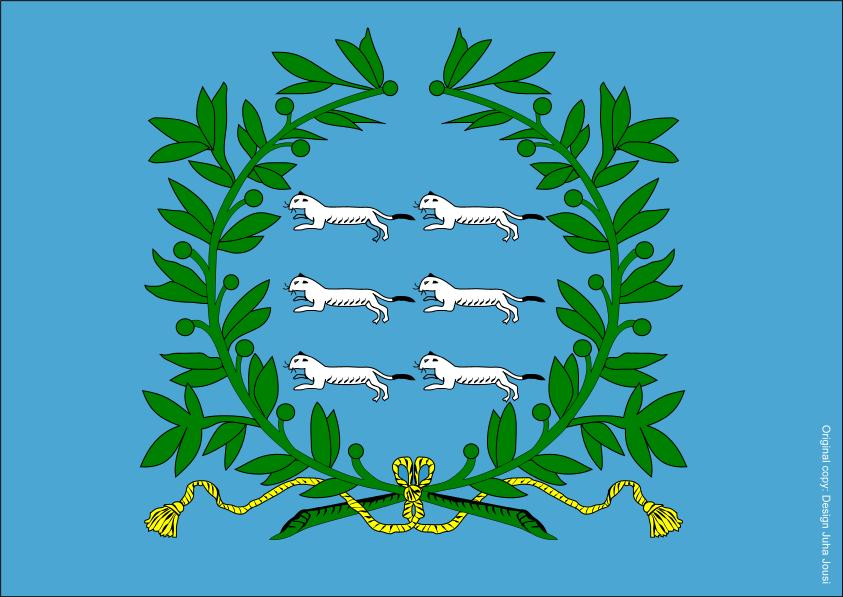 Ostrobothnian Regimental Colour